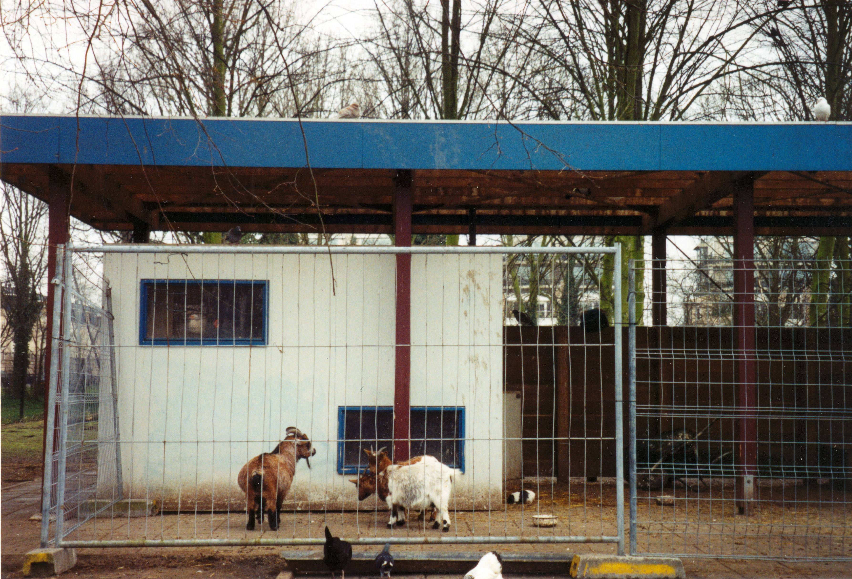 Animals in a children's farm during the 2001 Foot and mouth disease epidemy in The Netherlands.